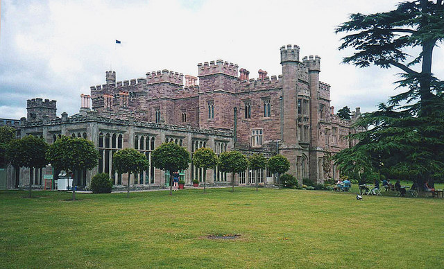 Hampton Court - 1 The castle has a rich history, dating back to before the 15th century. Left to decay for many years until 1994, when the Van Kampen family purchased it and spent huge amounts of money restoring the building and gardens. The conservatory (in the front of this picture) was designed by Joseph Paxton in 1846, six years before he went on to design Crystal Palace for the Great Exhibition. His original ridge-and-furrow roof collapsed in the early 1900s, but the building has been tastefully restored. The current owner is Graham Ferguson Lacey, the Isle of Man-based property developer. The castle is not open to the public, but the gardens and orangery tea room are a popular attraction.